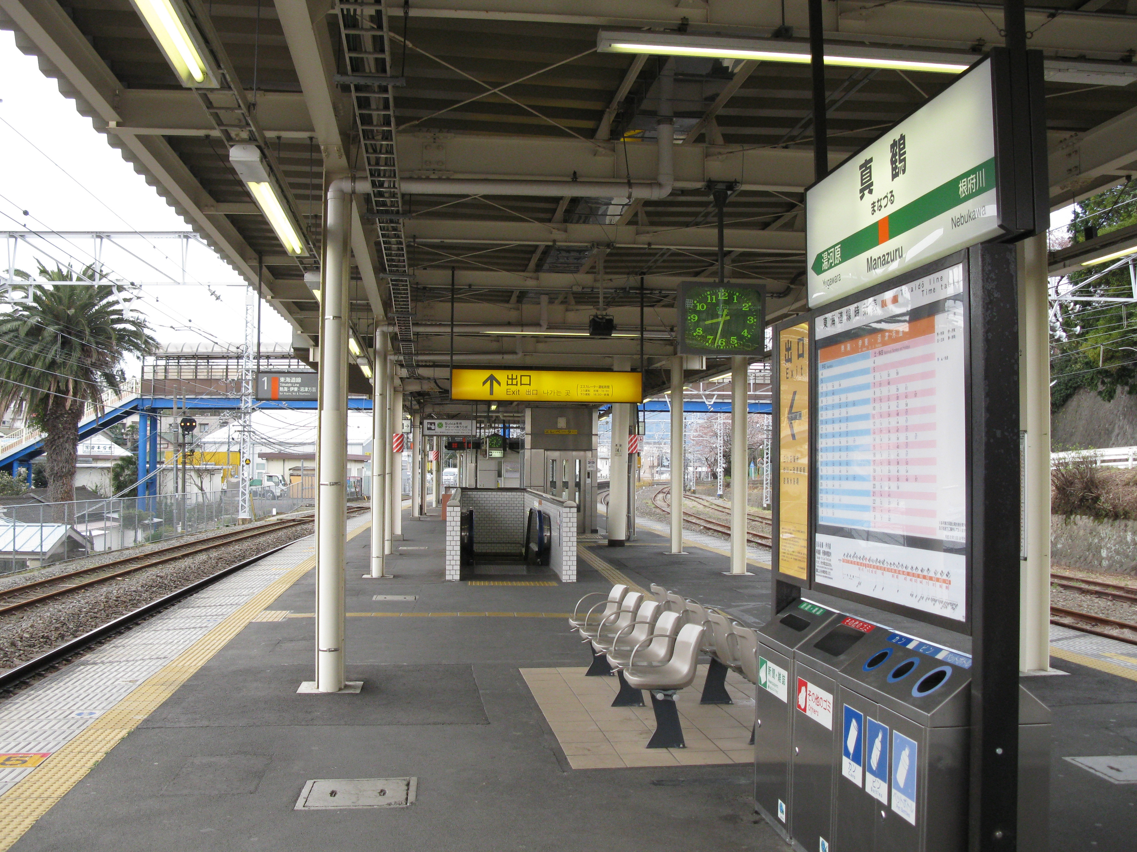 Manazuru Station platform (East Japan Railway(JR East) Tōkaidō Main Line)